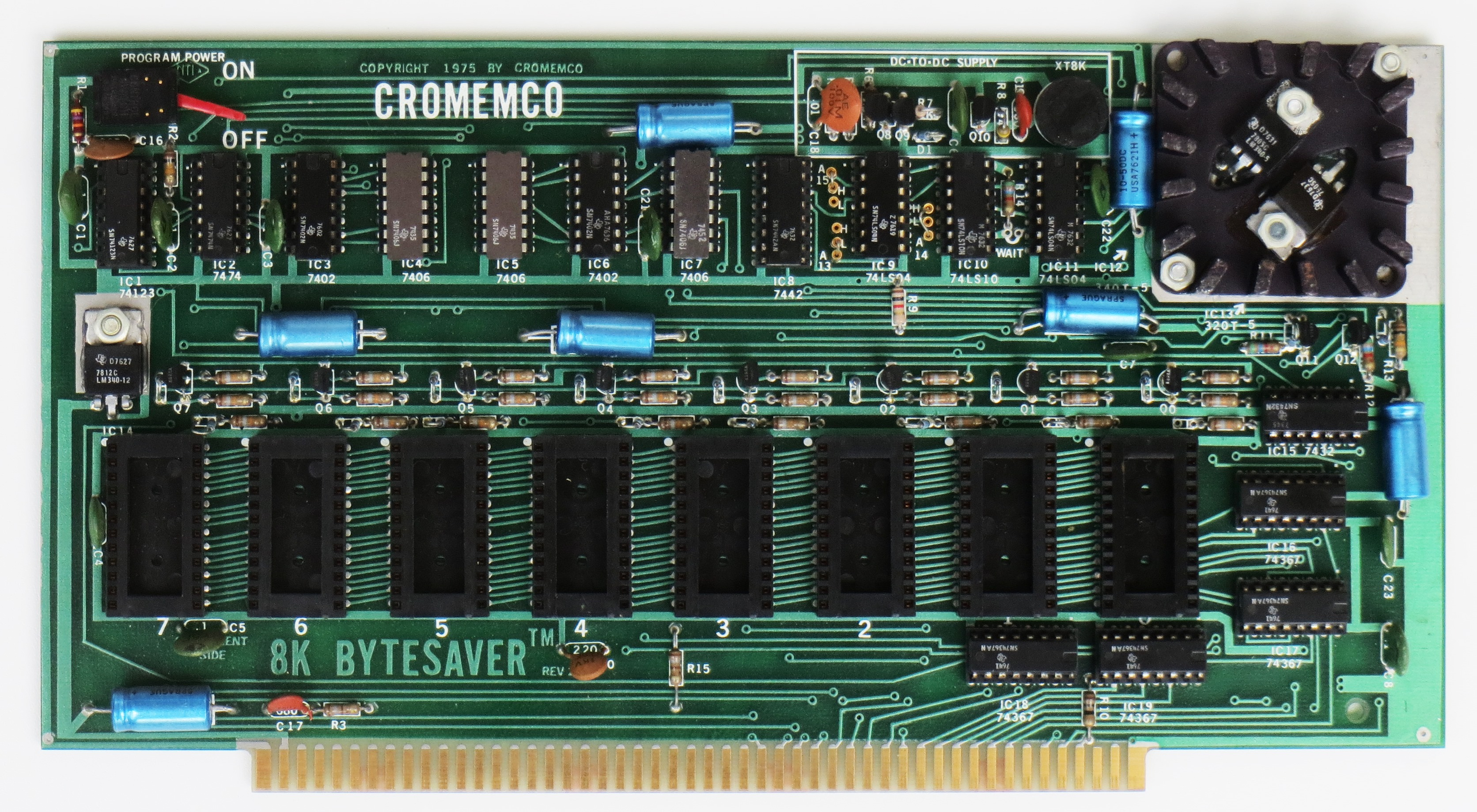 Cromemco 8K Bytesaver S-100 microcomputer memory card.